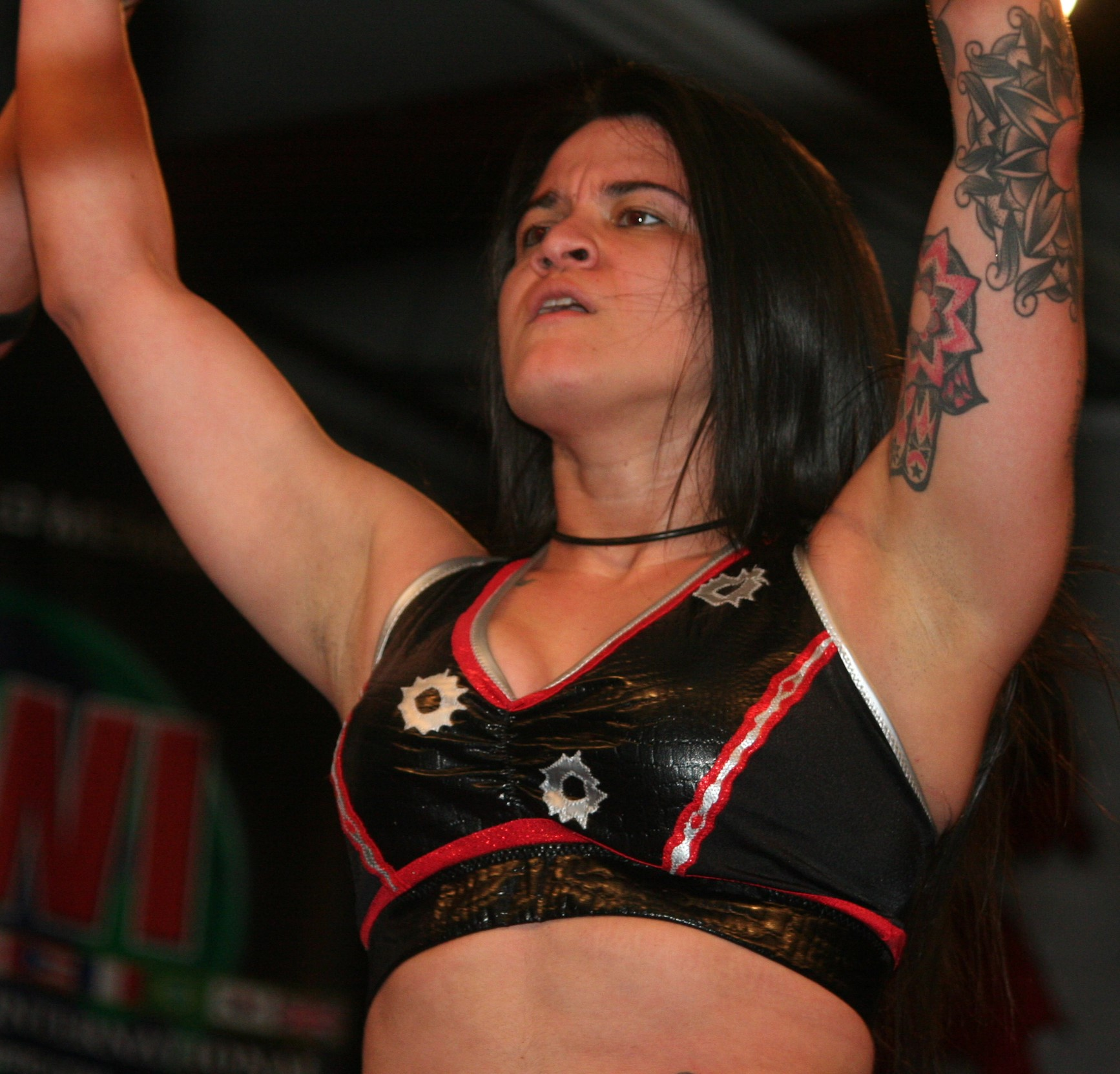 Diamante at a Queens of Combat show in North Carolina in March 2018.